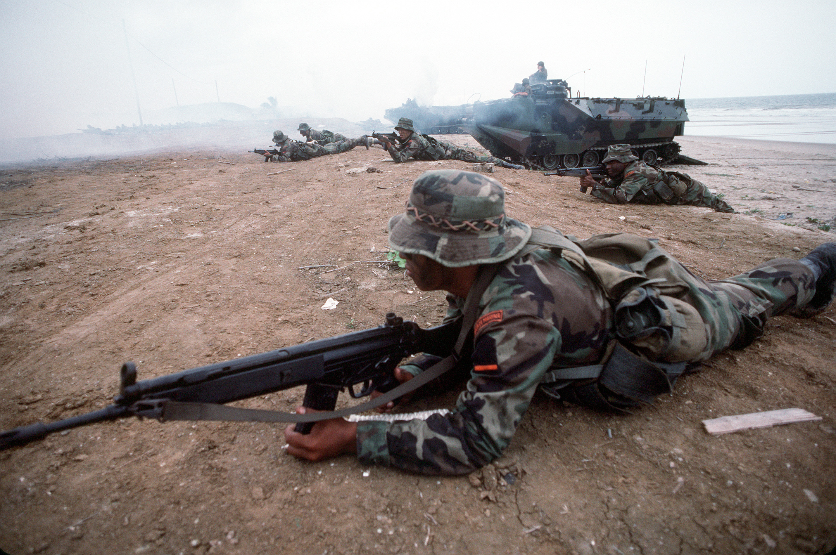 Original caption: An Ecuadoran marine armed with an HK-33E RIFLE lies prone at the top of a berm after exiting an AAVP-7A1 amphibious assault vehicle with the members of his squad. U.S. and Ecuadoran marines are engaging in beach assault training as part of Unitas XXXII, a combined exercise involving the naval forces of the United States and nine South American nations.